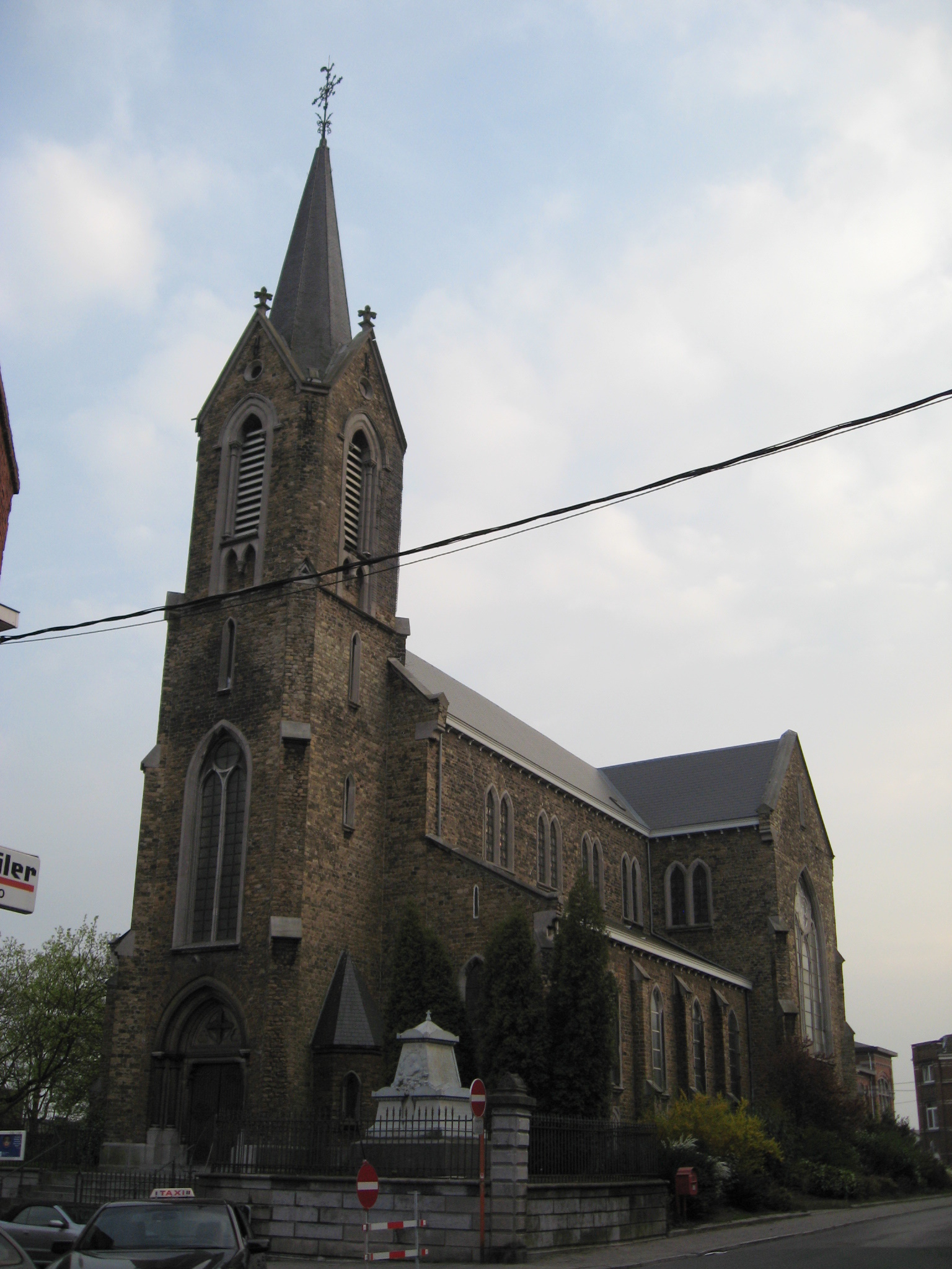 Church of Saint Walpurga in Liège, Belgium